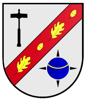 Coat of arms of Dauwelshausen